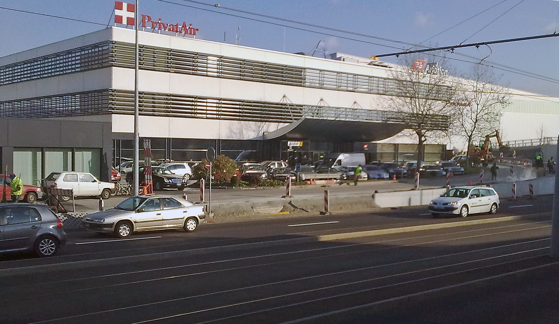 The headquarters of PrivatAir in Meyrin, Switzerland